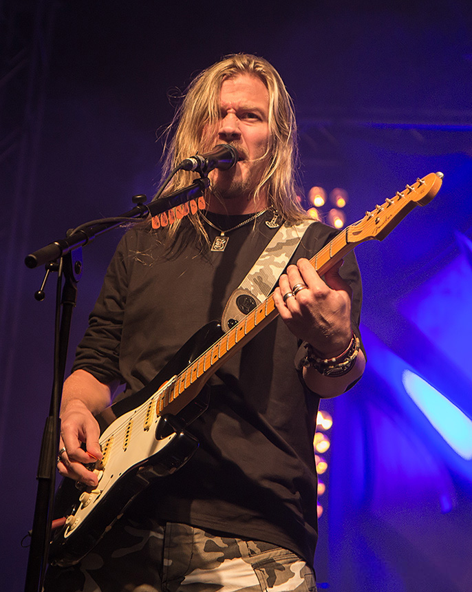 Sabaton 21.9.2012 Geiselwind, Eventhalle